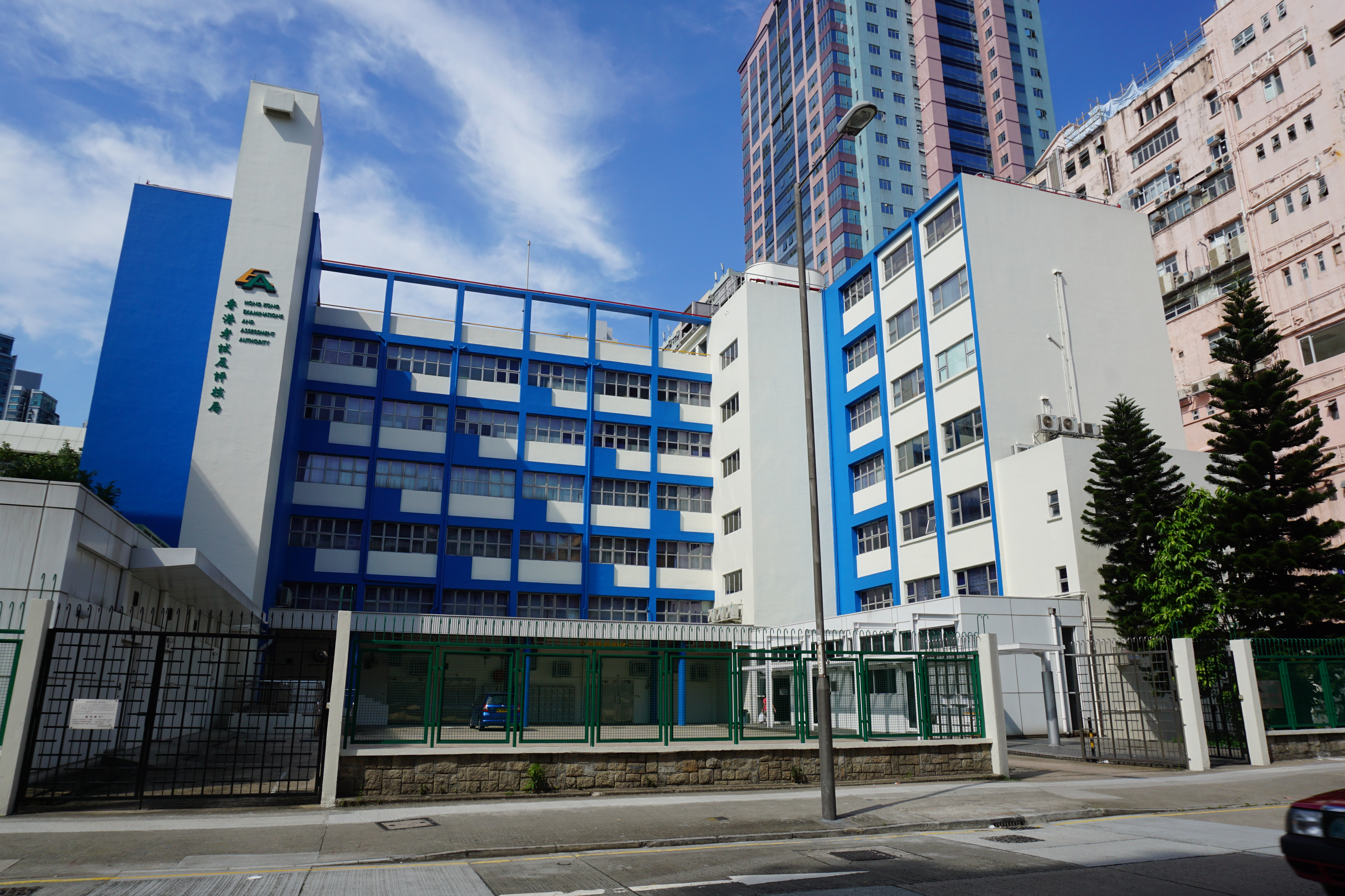 HKEAA office in San Po Kong, Hong Kong.